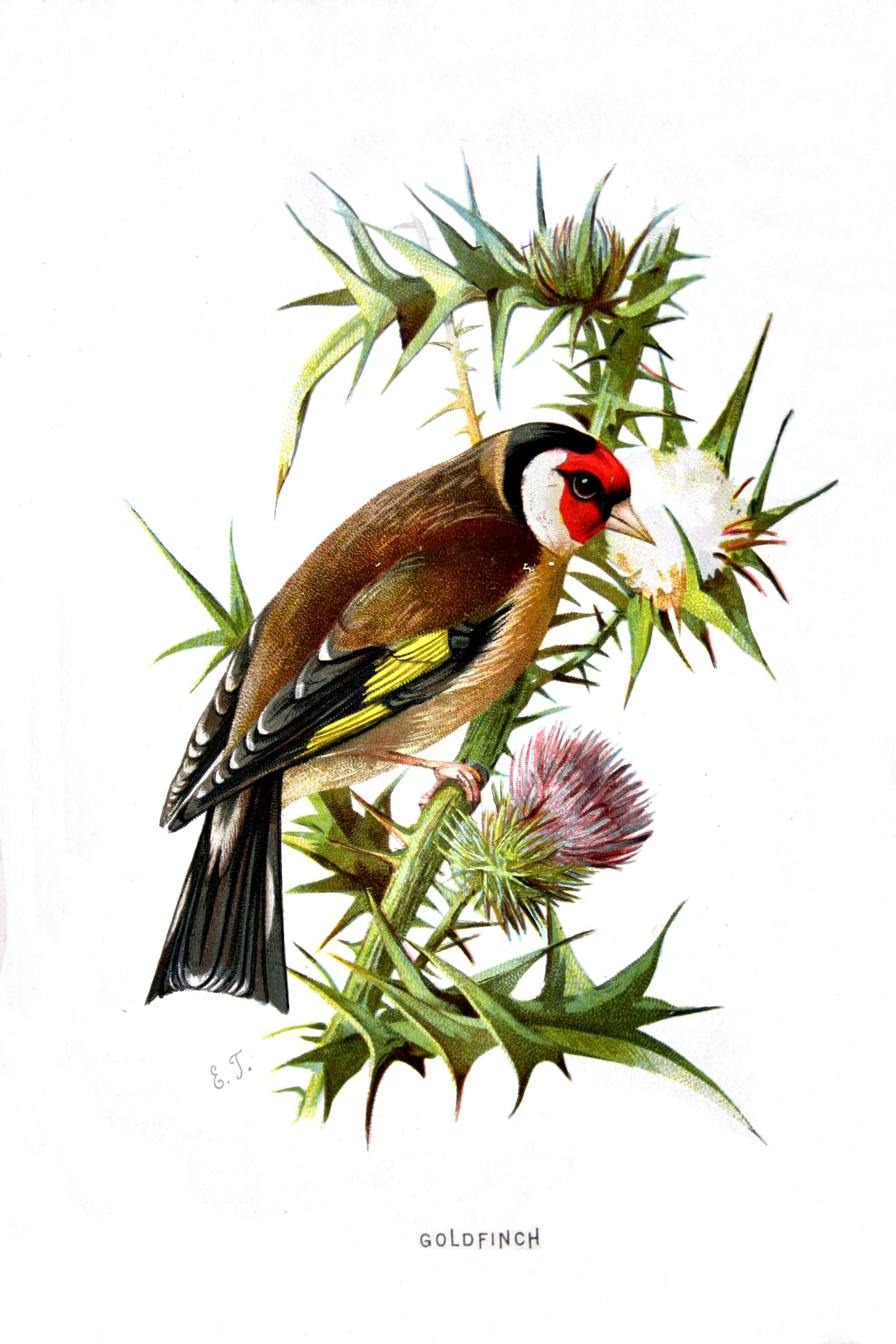 European Goldfinch (Carduelis carduelis)